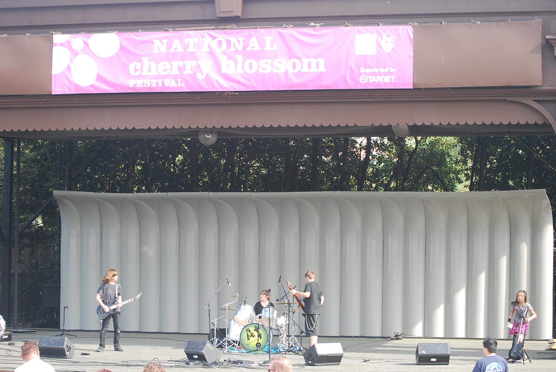 A+ Dropouts on the National Sylvan Theater stage during the 2010 National Cherry Blossom Festival